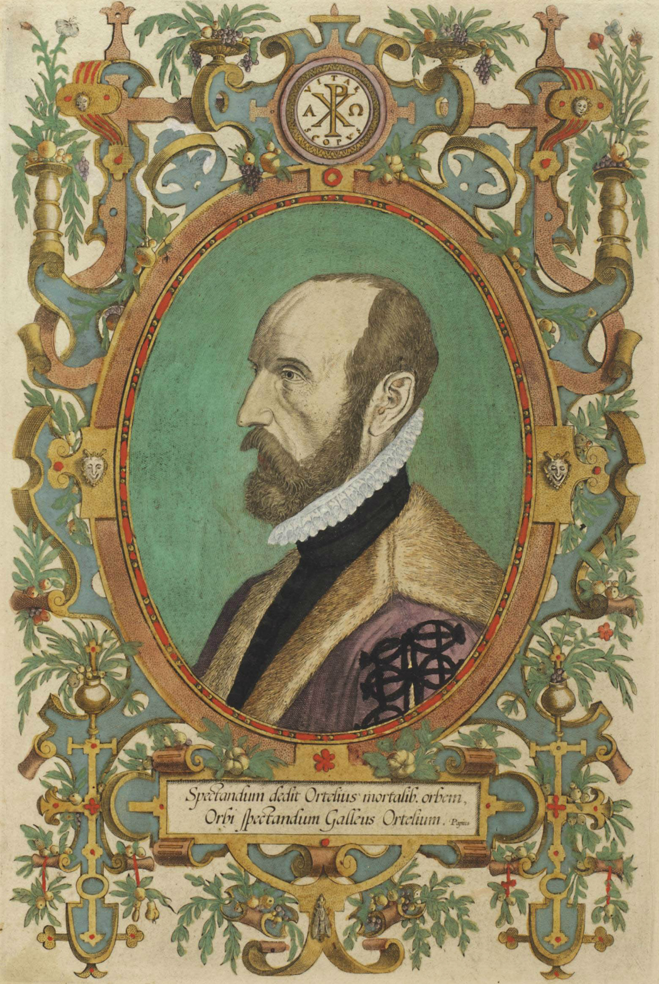 Engraving of Abraham Ortelius, from the titlepage of the Theatre de L'Univers contenant les cartes de tout le monde. Antwerp: Christopher Plantin for the author, 1587